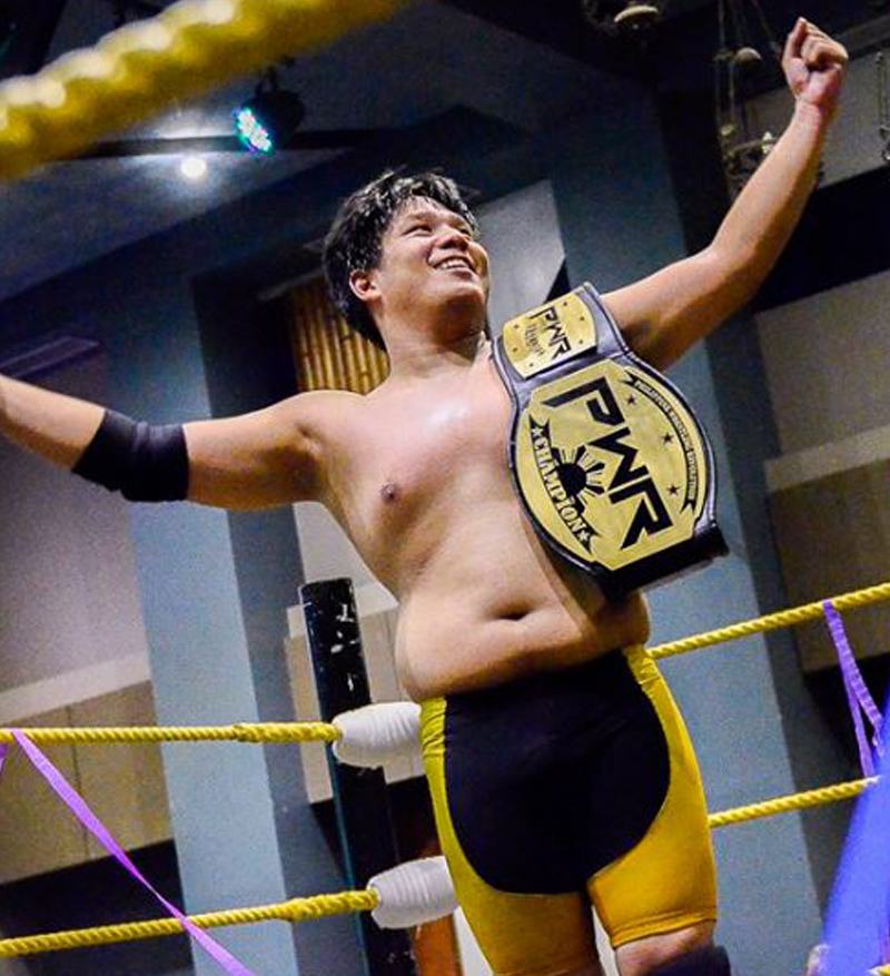 A PWR Wrestler.